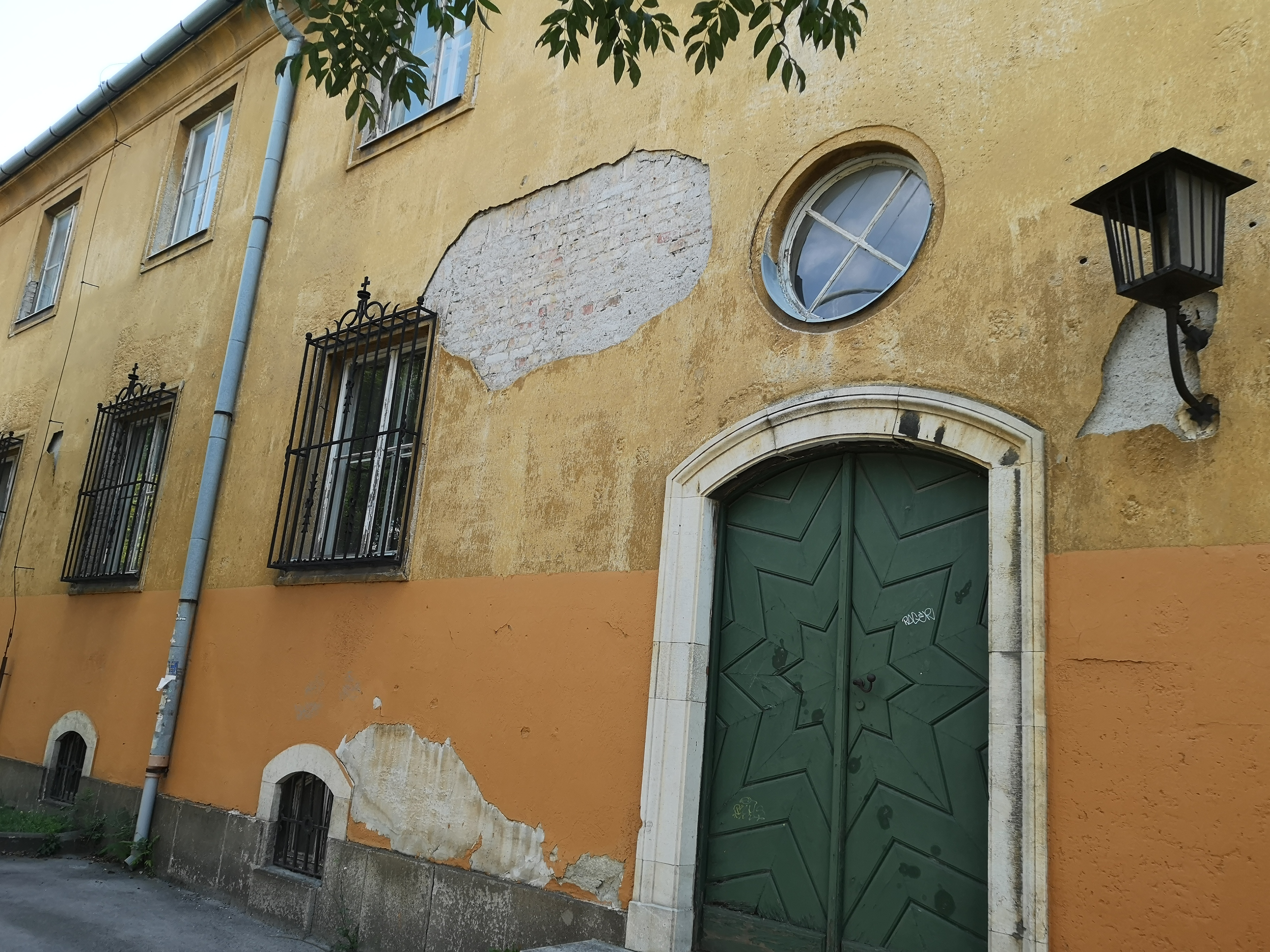 Vasvári Pál High School, Székesfehérvár, Hungary